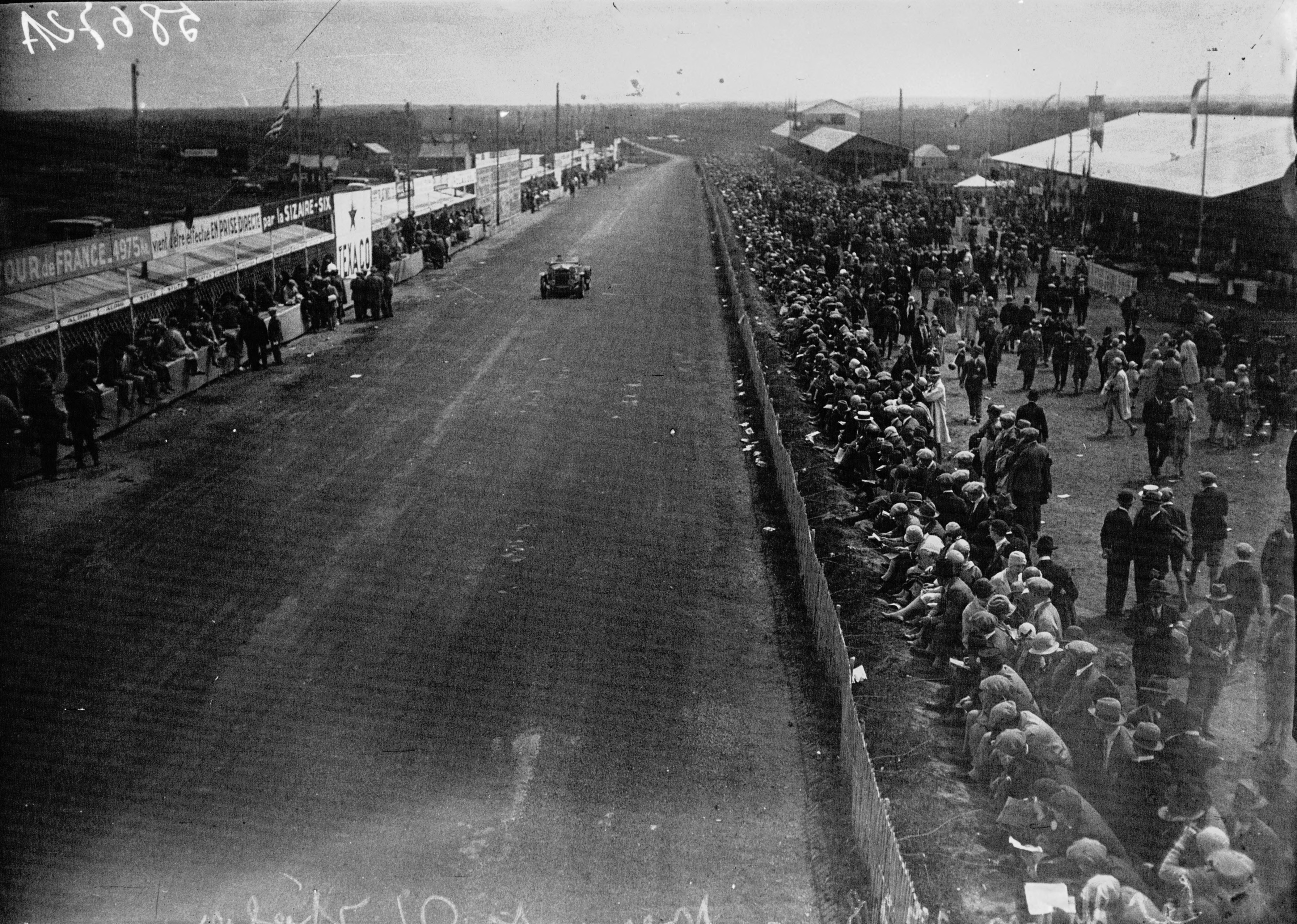 Itala #12 of Benoist and Dauvergne at the 1928 24 Hours of Le Mans.